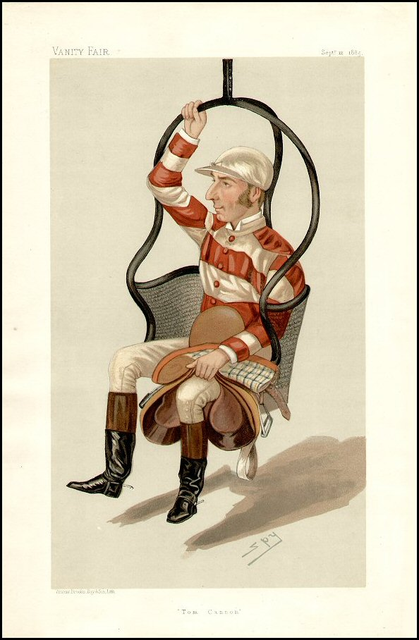 Men of the Day No.340: Caricature of Tom Cannon. (Thomas Cannon, 1846-1917, jockey)[1] Caption reads: "Tom Cannon"